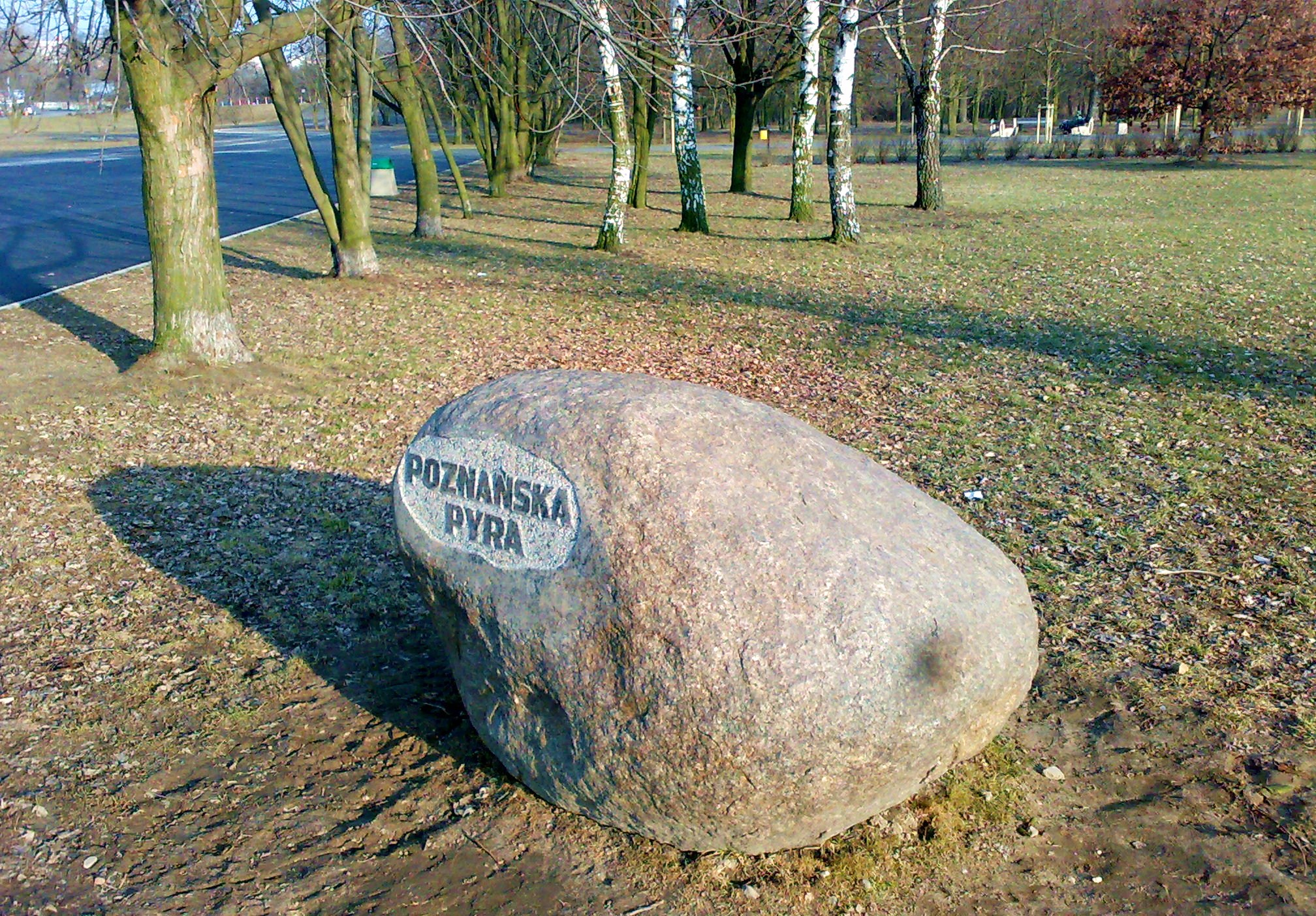 Pyra Monument in Poznan.